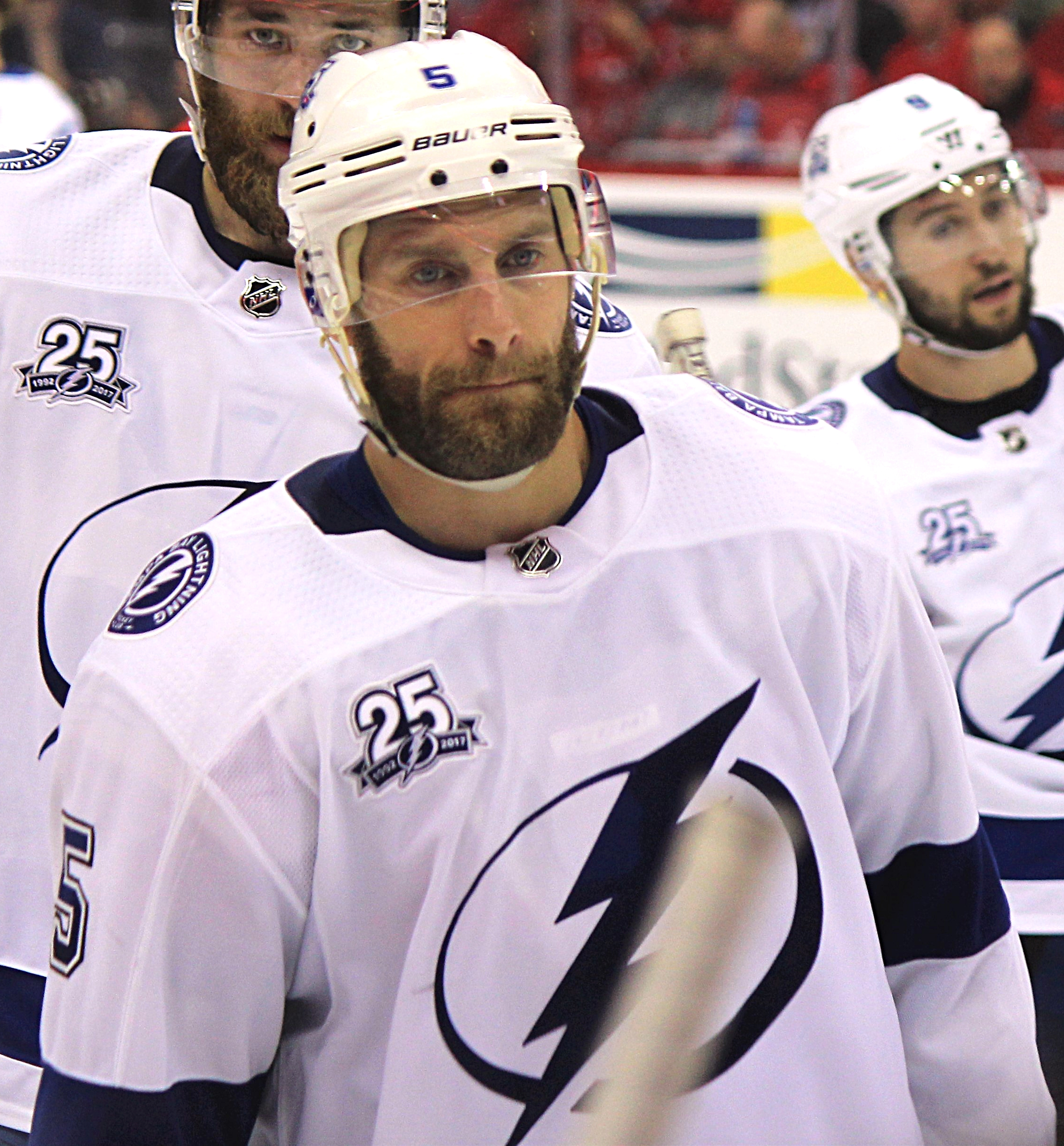 Tampa Bay Lightning defenseman Dan Girardi during game 5 of the 2017 Eastern Conference Finals against the Washington Capitals, May 21, 2018, at Capital One Arena in Washington, D.C.